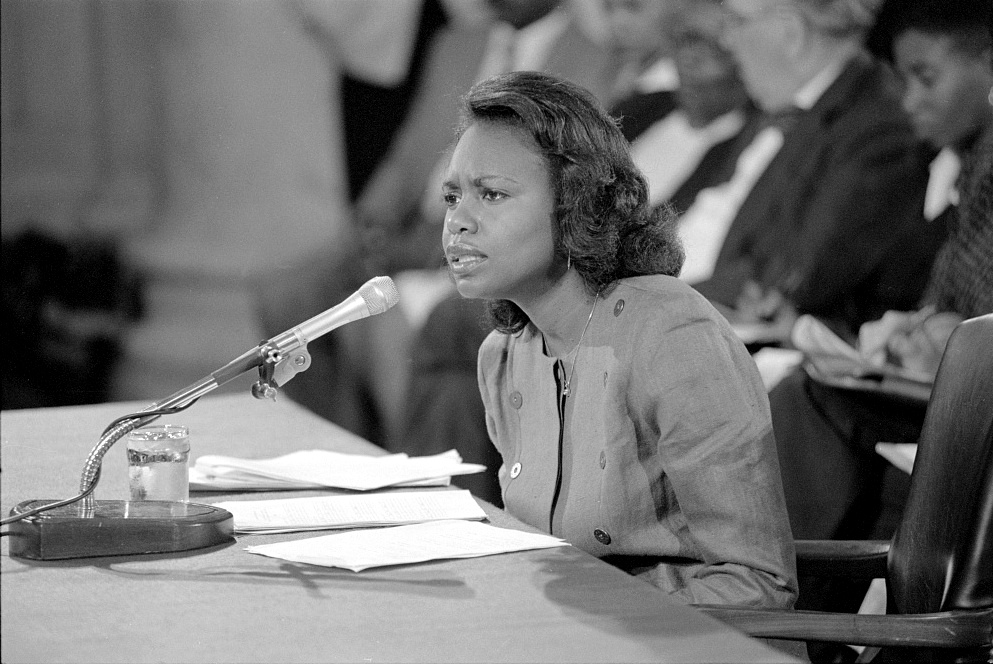 Anita Hill testifying in front of the Senate Judiciary Committee during Clarence Thomas's Supreme Court confirmation hearing.